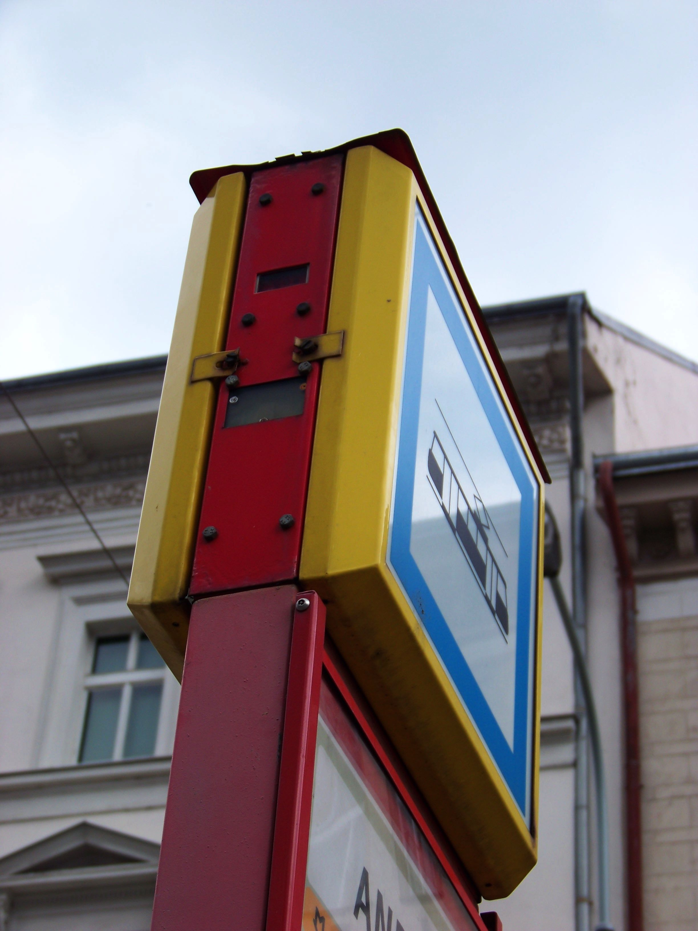 Prague-Smíchov, the Czech Republic. Nádražní street, tram stop Anděl, a tram stop signs with a telematic infra-beacon.